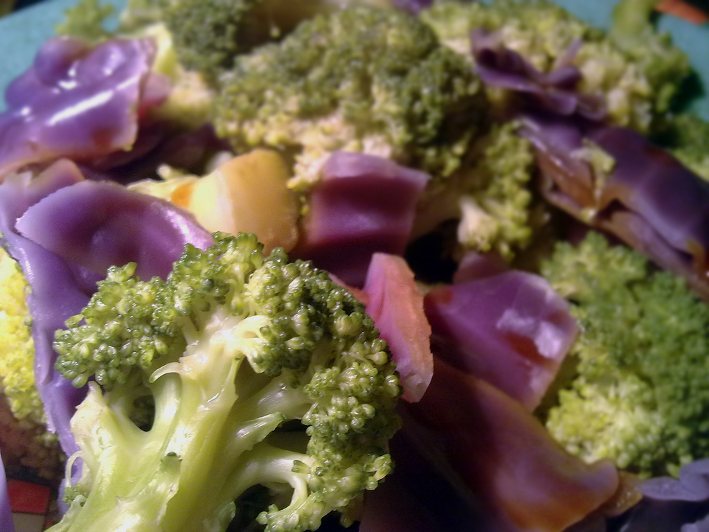 Steamed broccoli and red cabbage - Col roja y brécol al vapor Baked frozen vegetable sausages and peas